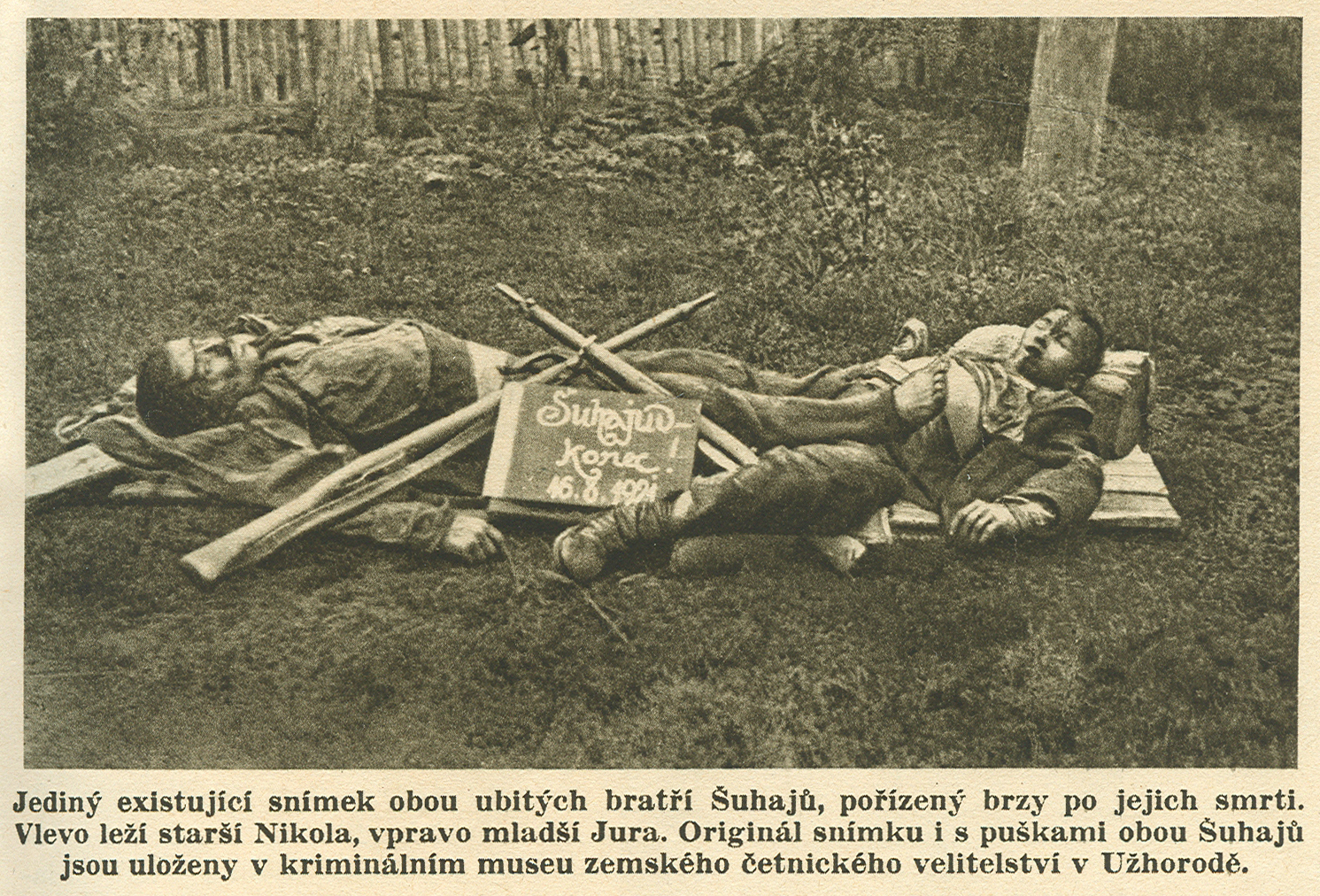 The only photo of the Suhaj brothers